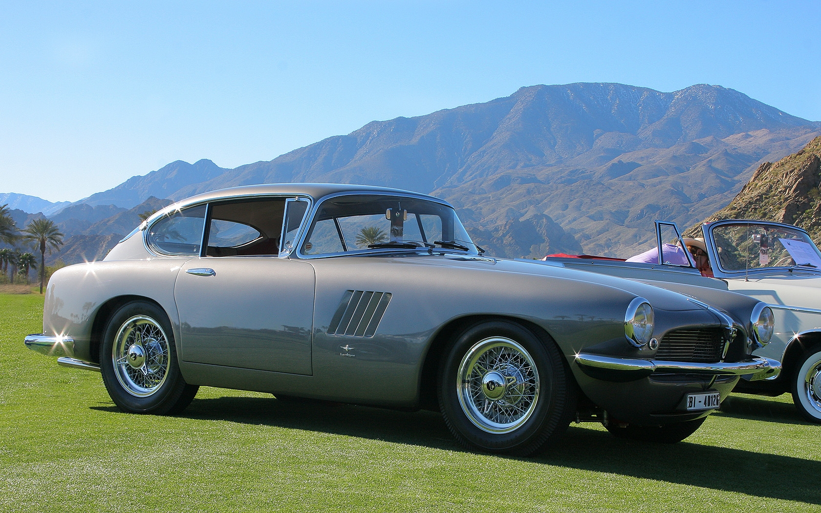 1956 Pegaso Z102 Touring Coupe - fvr